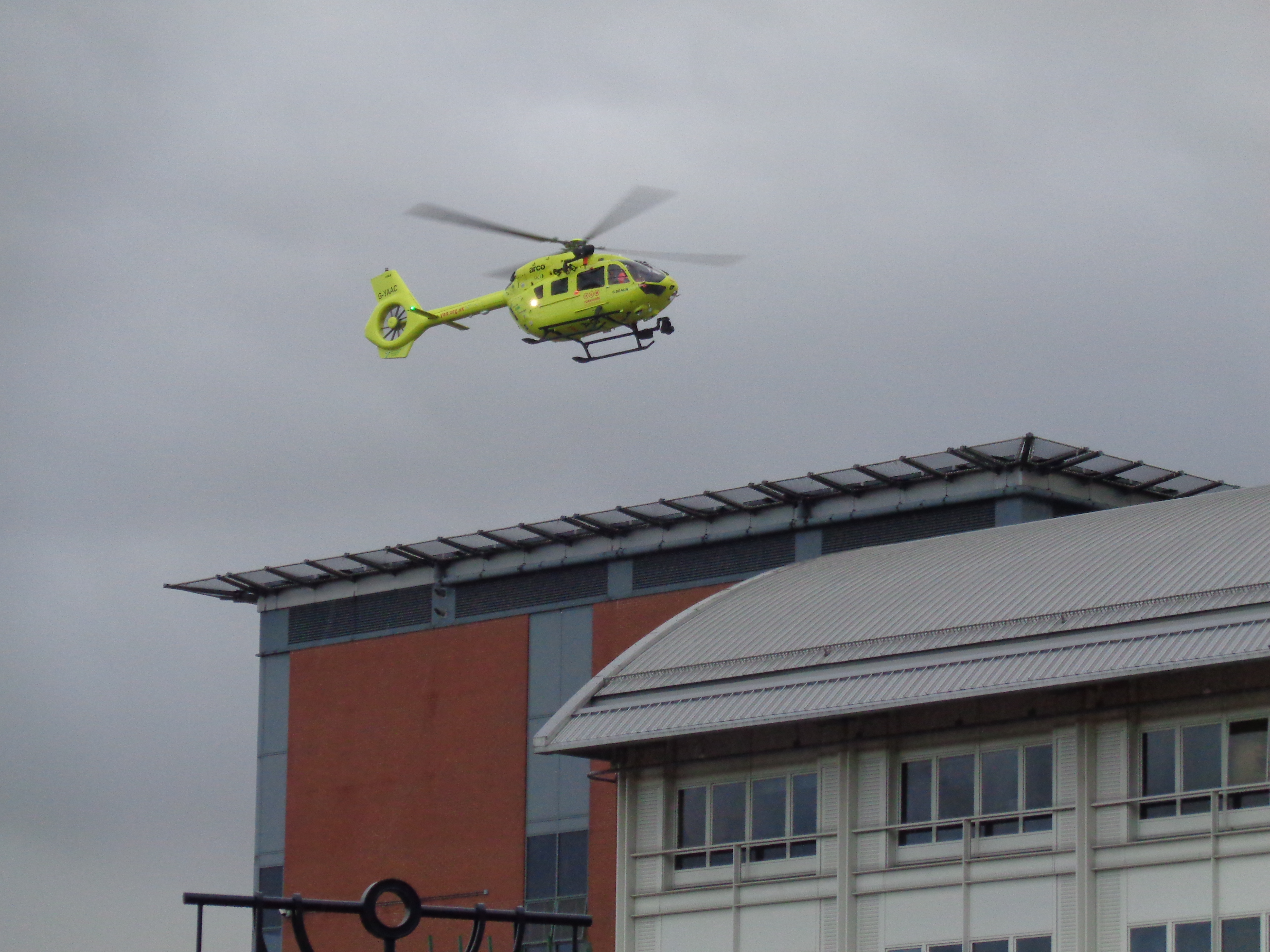 Yorkshire Air Ambulance landing at Leeds General Infirmary in Leeds, West Yorkshire. Taken on the afternoon of Thursday the 20th of October 2016.